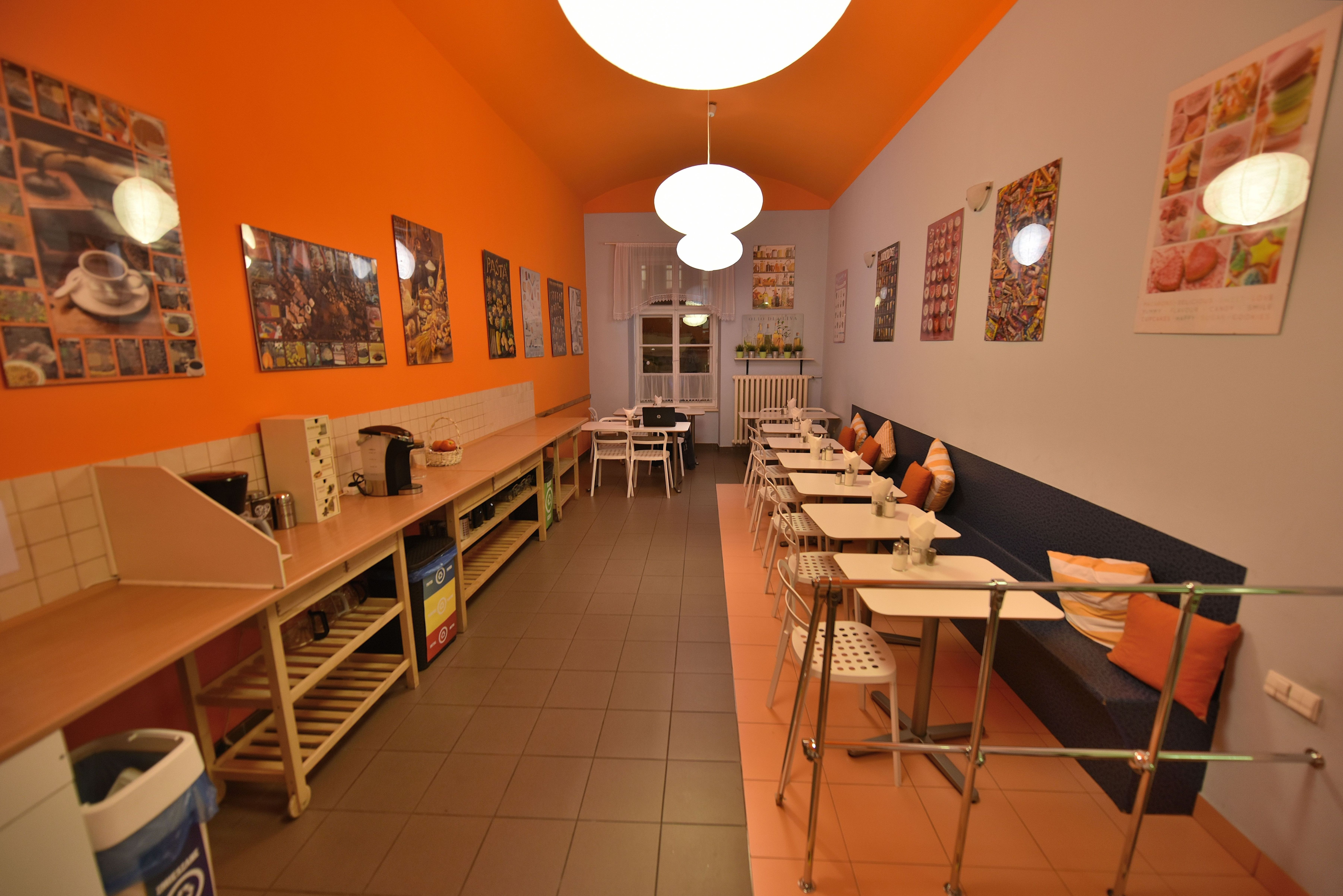 The kitchen at the Secret Garden Hostel at 7 Skawińska Street in Kraków